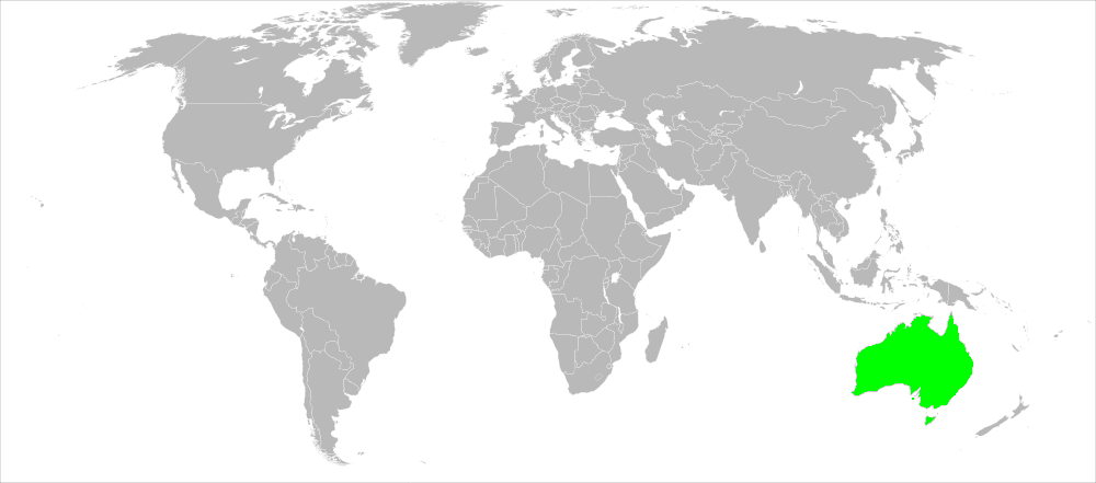 Distribution map of M. pilosula (jack jumper). The jack jumper is found all around Australia